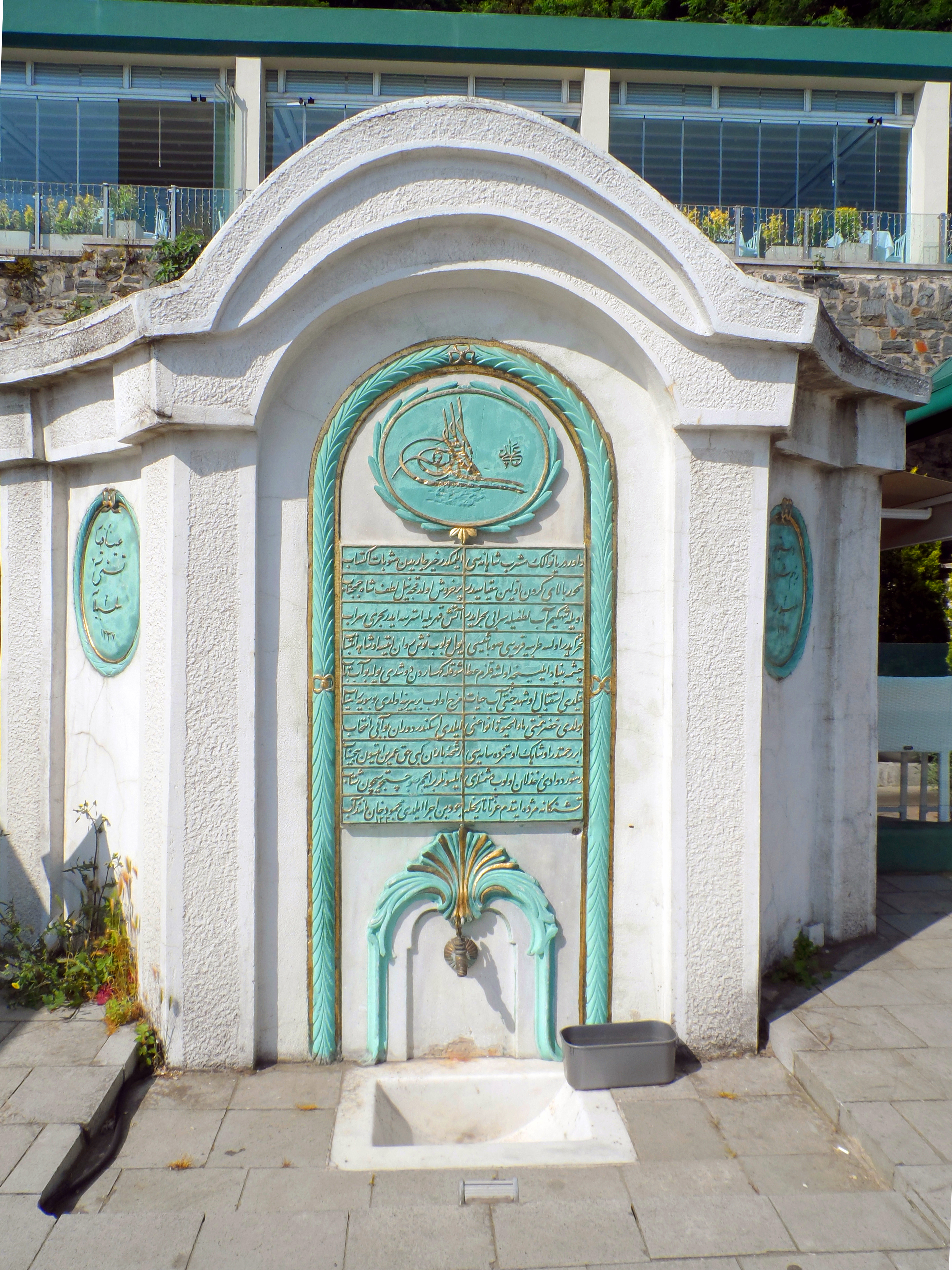 Sultan Mahmut Fountain in Kireçburnu, İstanbul